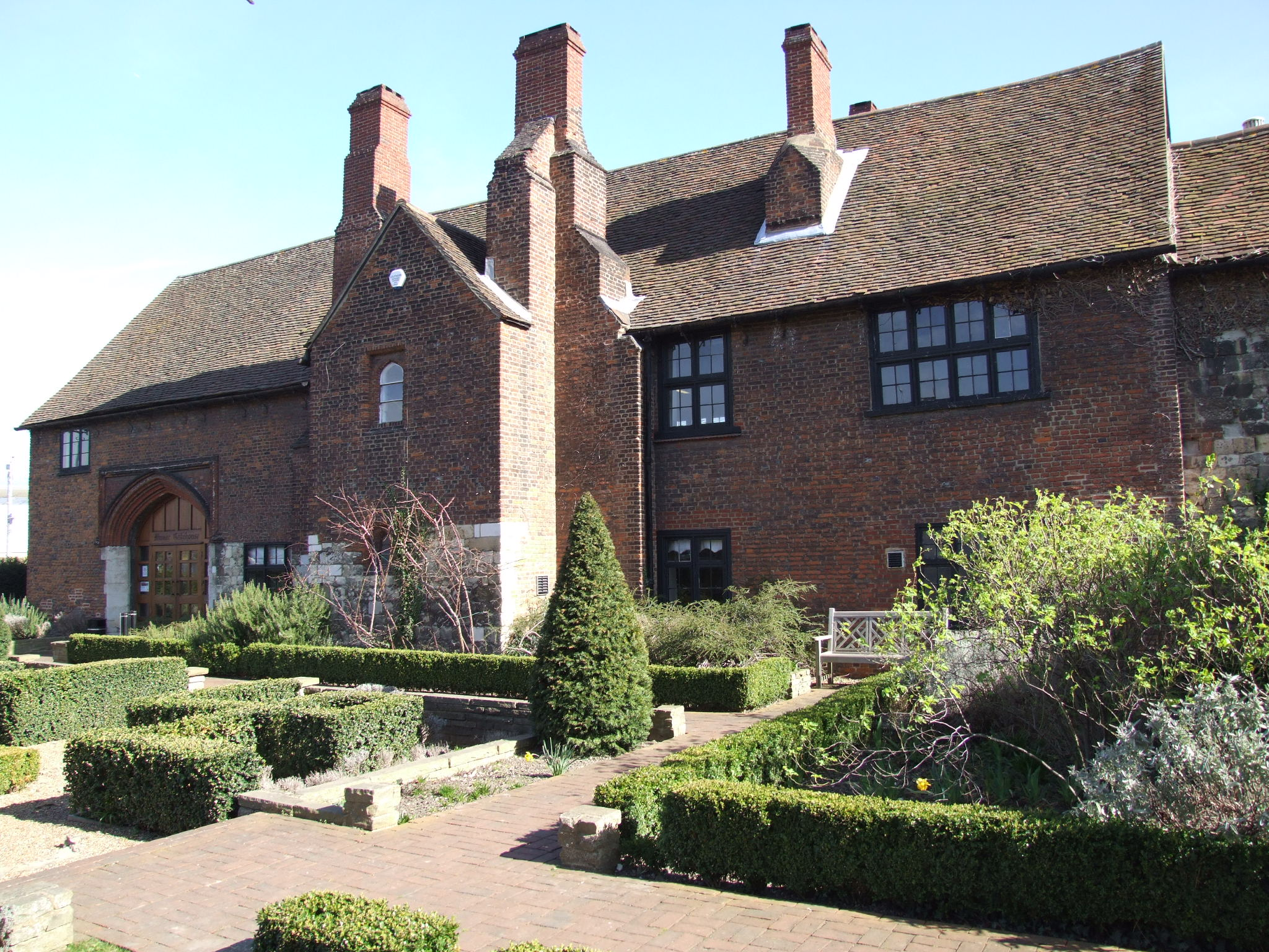 The western gatehouse to Henry VIII royal manor at Dartford, on the site of 1356-1539 Priory of Dominican Nuns. Anne of Cleves resided here 1553-7.